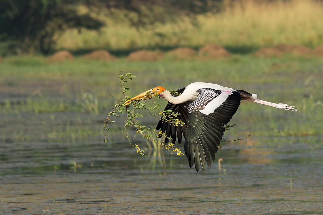 From Sulthanpur Bird sanctuary, Haryana